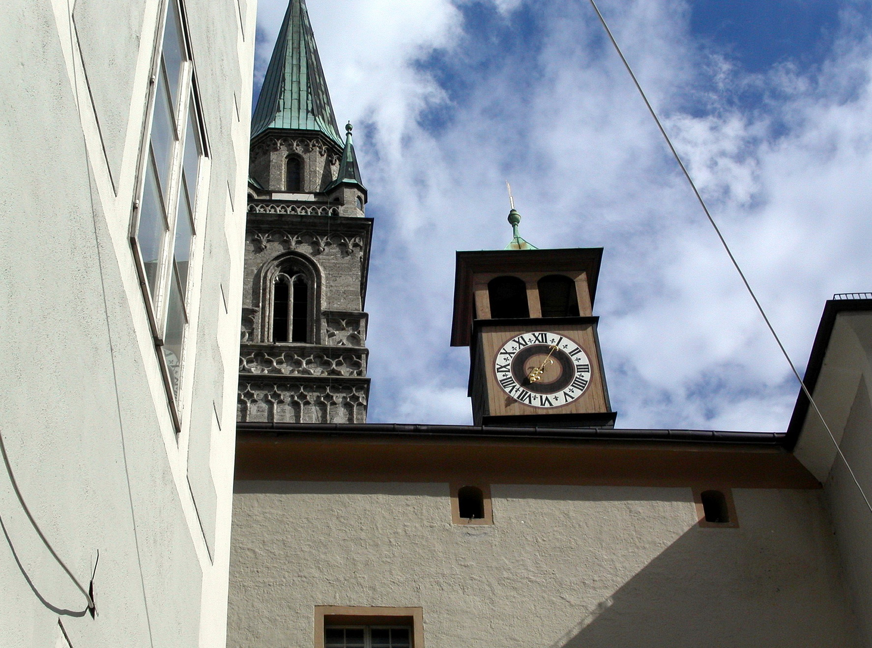 Salzburg, Austria